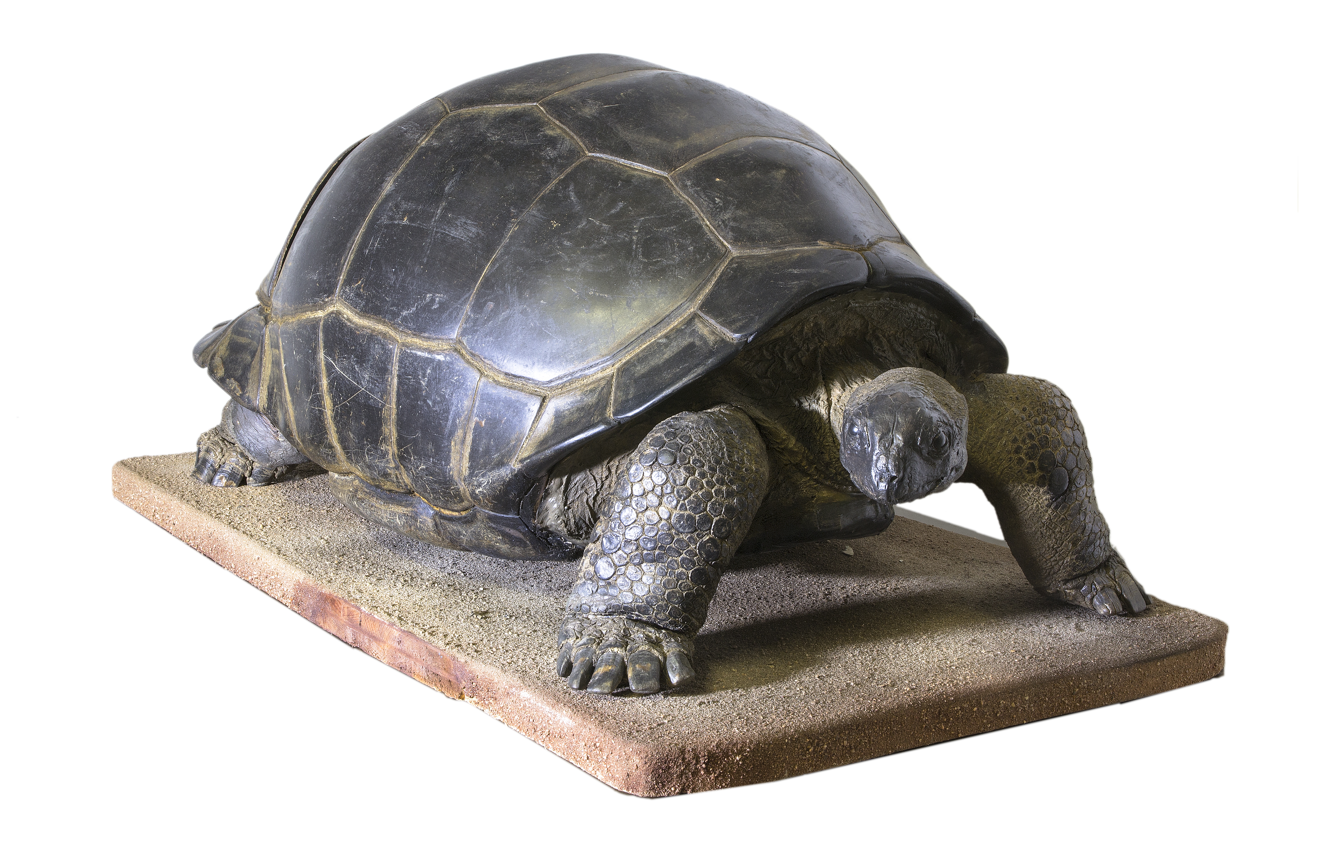 taxidermied specimen, Aldabra giant tortoise, size : 95 x 56 x 43 cm